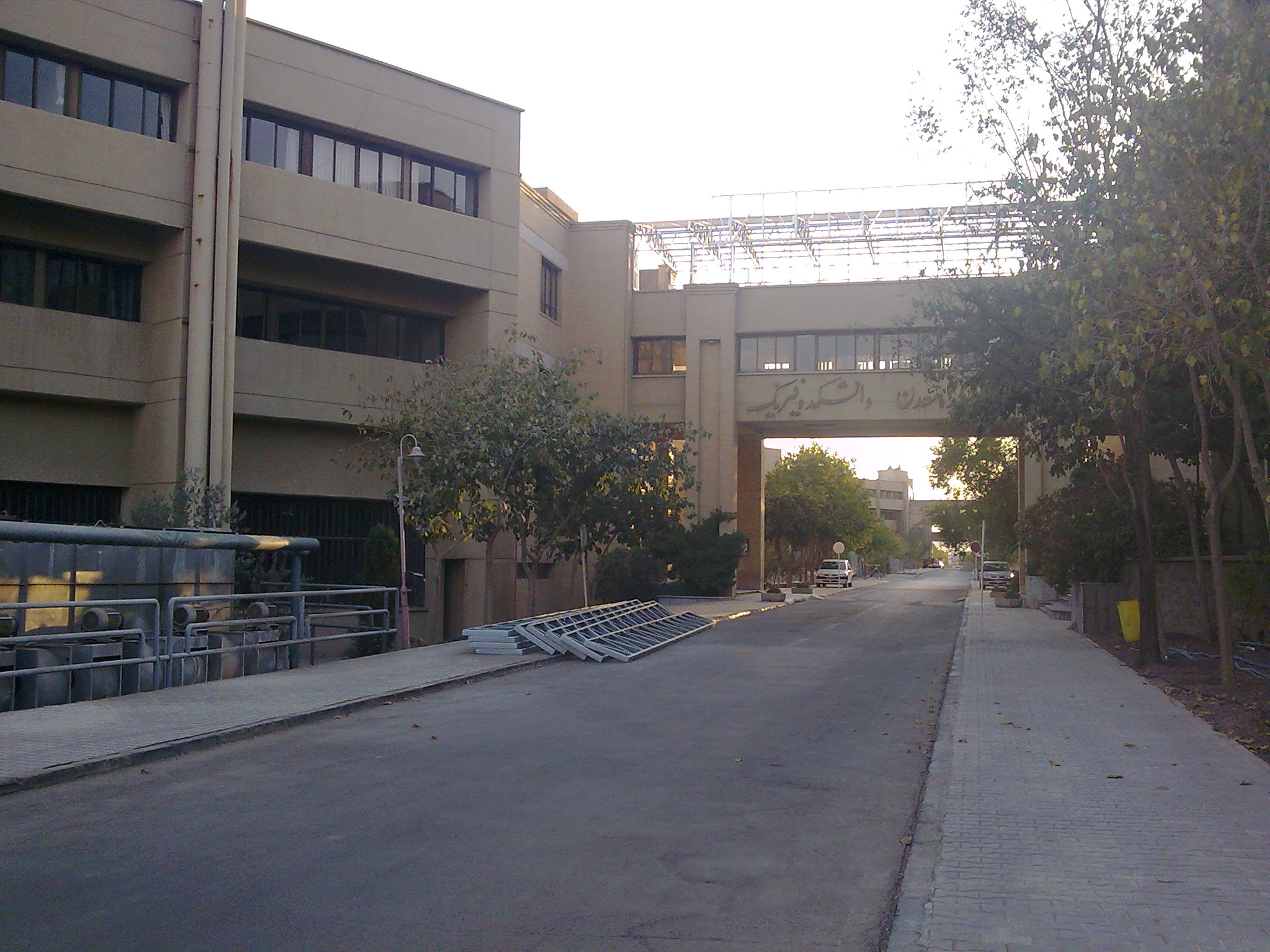 Physics department of Isfahan University of technology